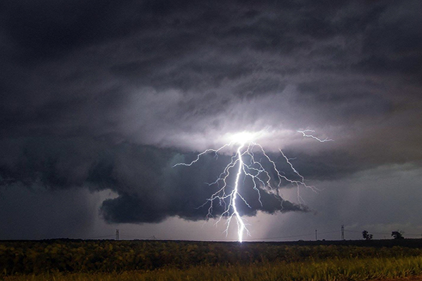 Elevated nocturnal thunderstorm